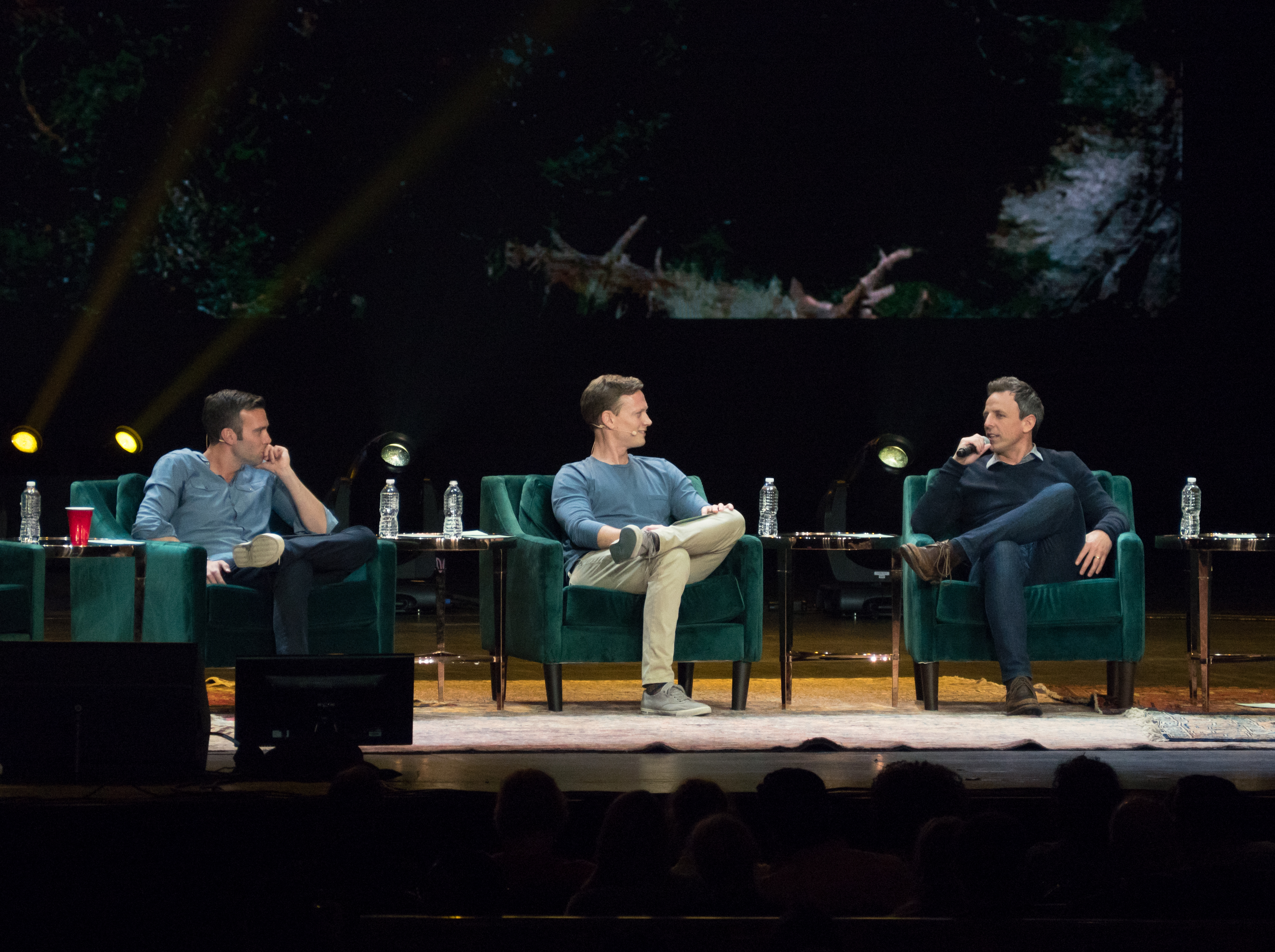 Jon Favreau, Tommy Vietor, and guest Seth Meyers at a live taping of Pod Save America at Radio City Music Hall in New York City.